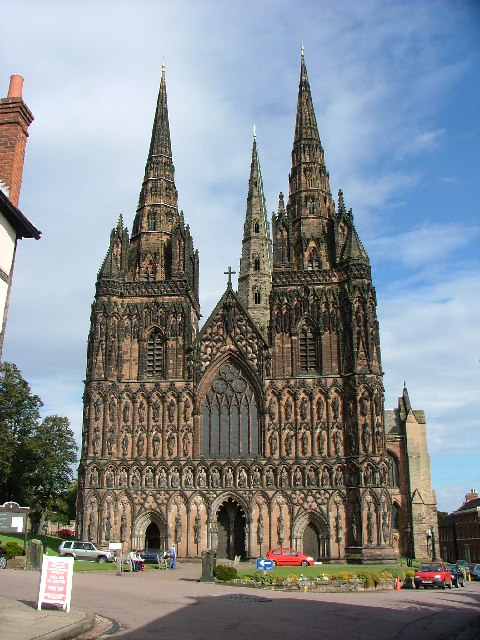 West front of Lichfield Cathedral, Staffordshire, England